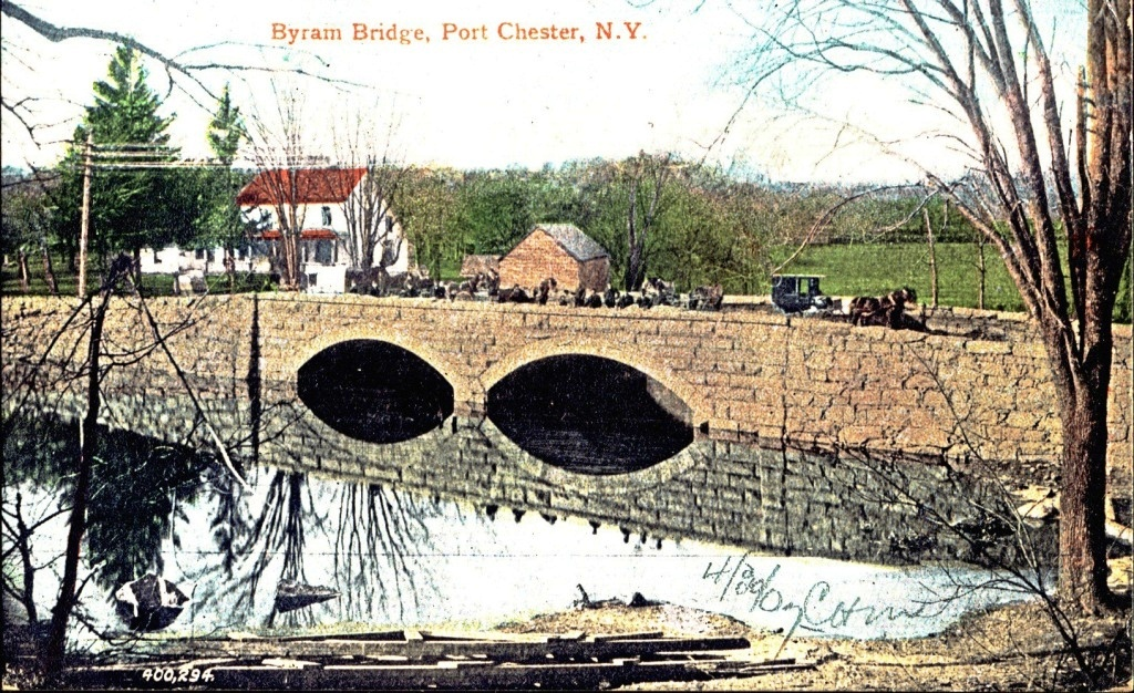 Byram Bridge, Port Chester, Ny